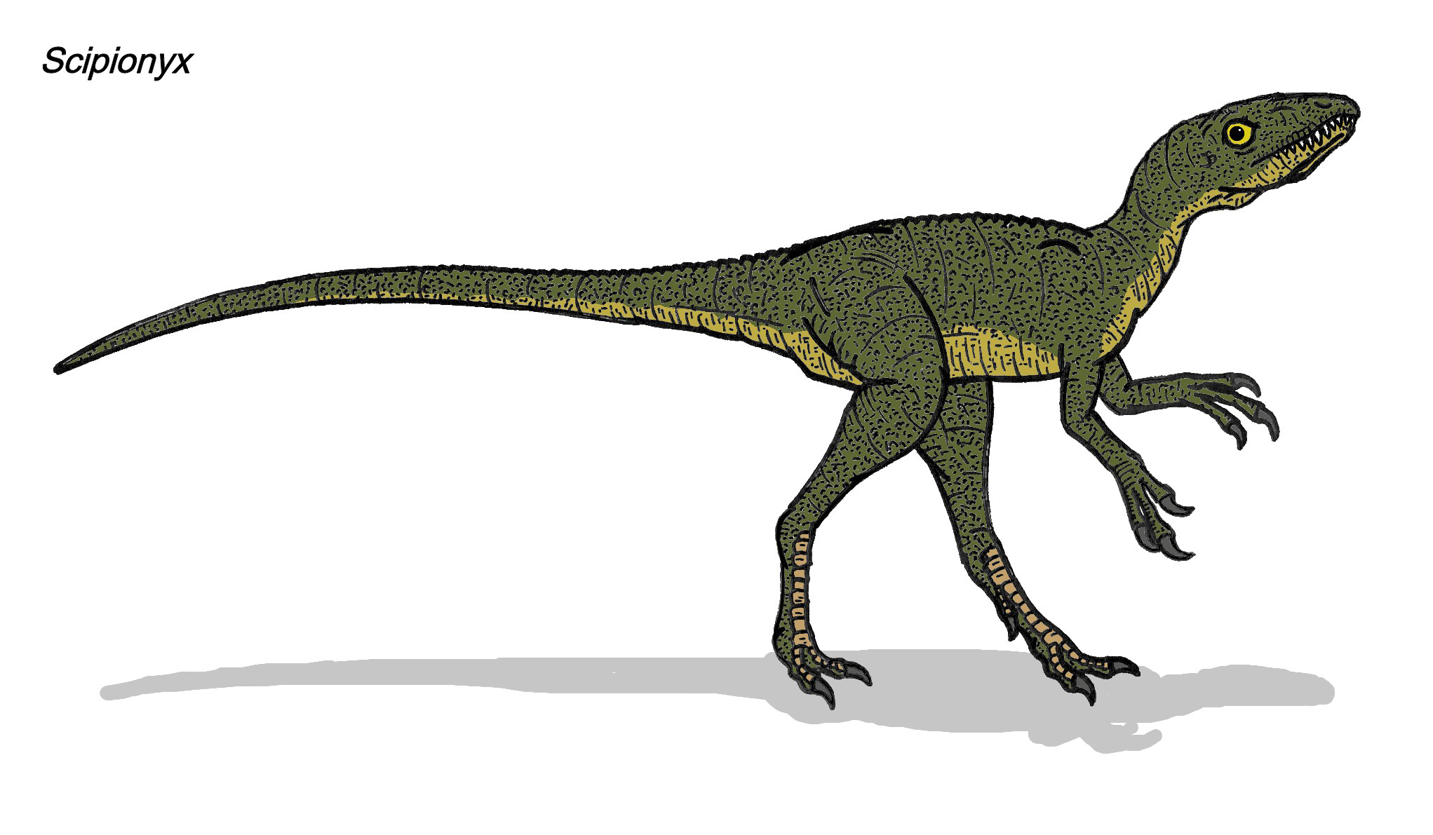 Reconstructed version of the small theropod dinosaur Scipionyx, a coelurosaurian found in Italia, and dated to be about 115 million years old. Here, it is depicted without feathers. HERE is a version without feathers.